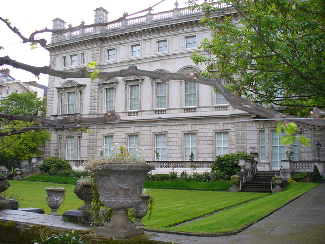 Lancaster House Mansion dating from 1825, built for Duke of York and Albany. The west frontage looks over the Queen's Walk to Green Park.